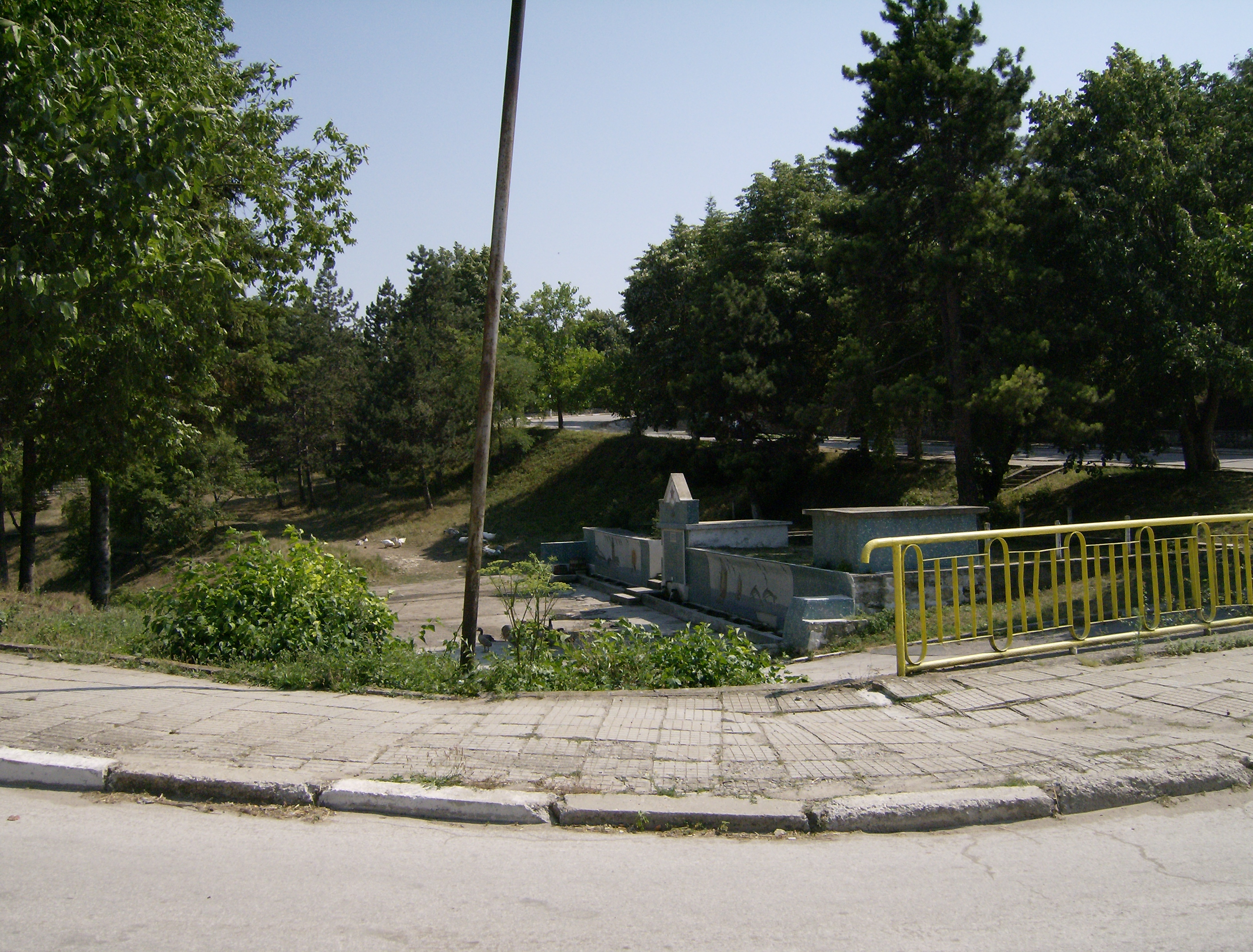 Drumevo